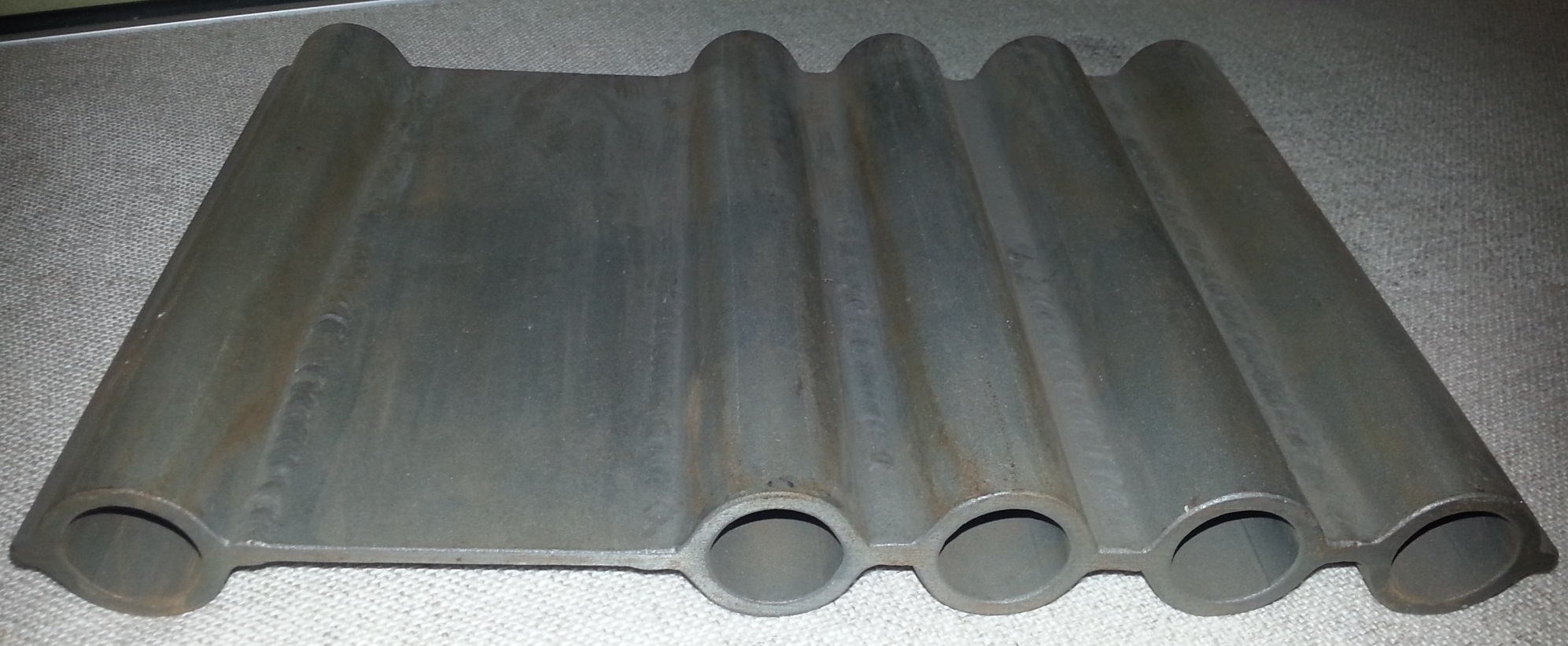 Cut-out piece of a finned tube wall (membrane wall) of a boiler